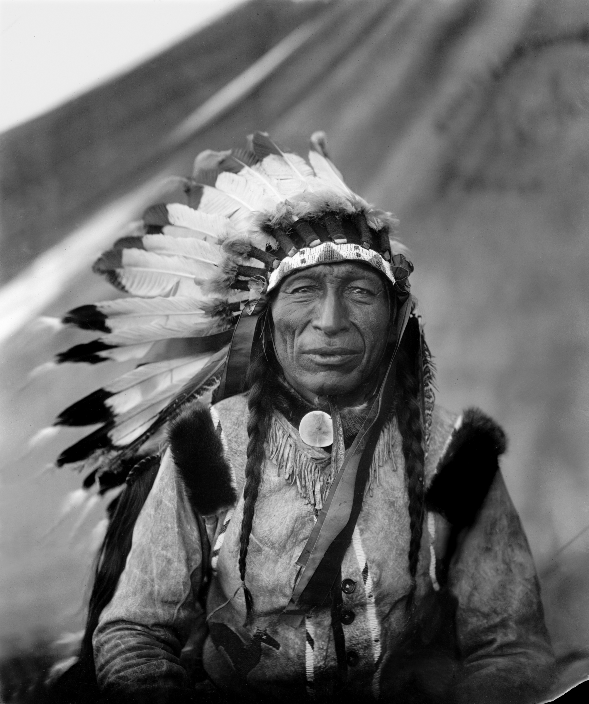 Photograph of Lakota Sioux chief Iron Tail by F.W Glasier.